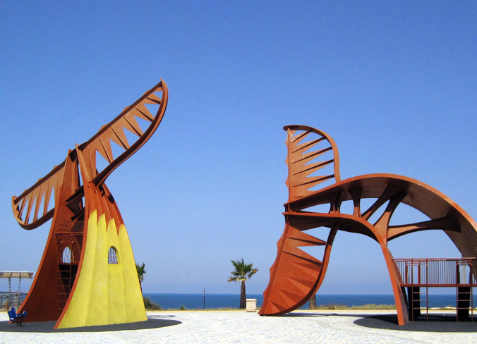 "The Whale Tails" / הלווייתנים" בחוף אשקלון - אהרלה בן אריה 2009"